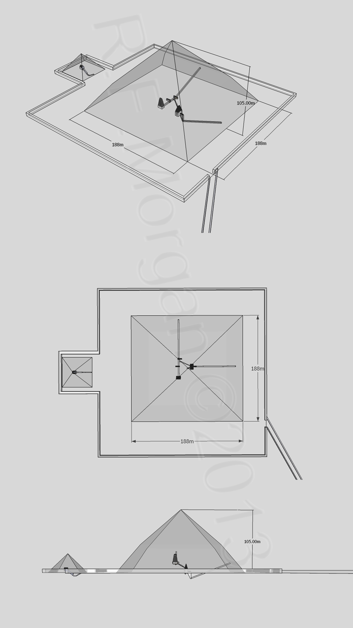 Isometric, plan and elevation images of the Bent Pyramid Complex